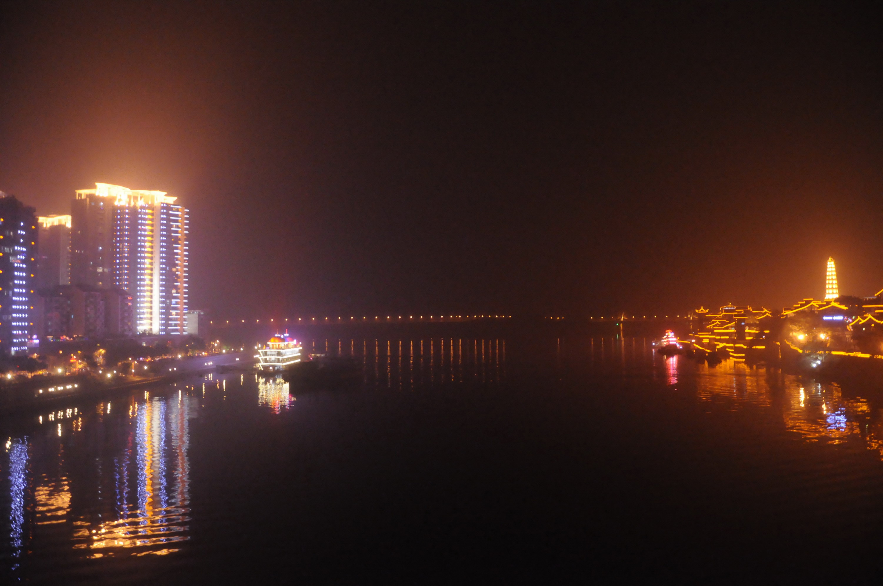 A night veiw of Hechuan city along rivers. This photo was taken by Prof. Chne Hualin